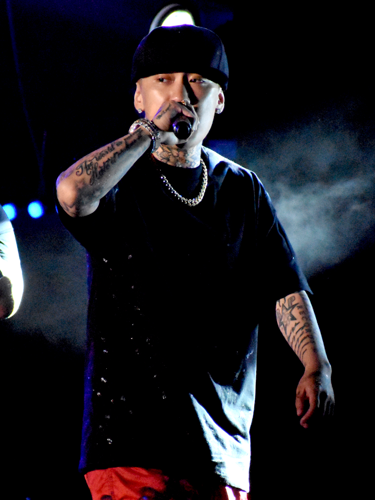 Dok2 at the 23rd Busan Sea Festival in Haeundae on August 1, 2018.